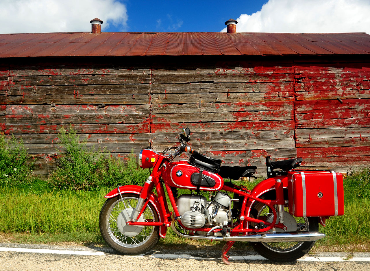 1967 BMW R60/2 motorcycle with aged red barn in background